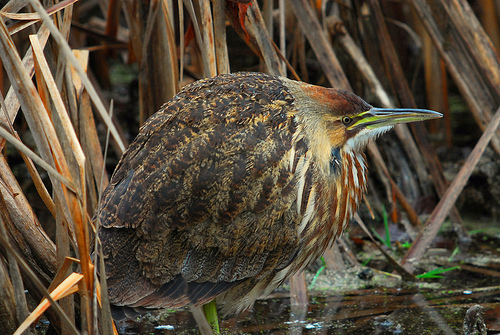 American Bittern, Nisqually National Wildlife Refuge Credit: BobEngr, USFWS